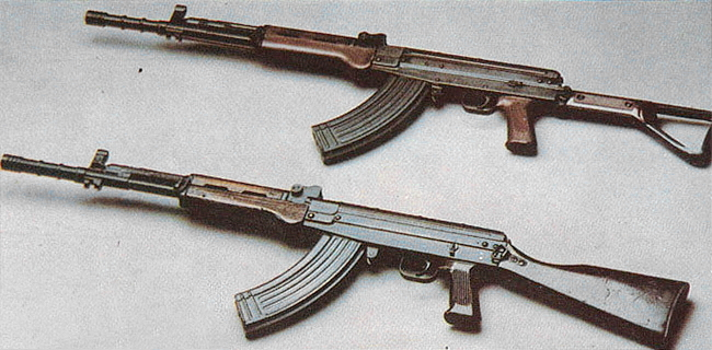 Source:http:// devoted.to/plamarine